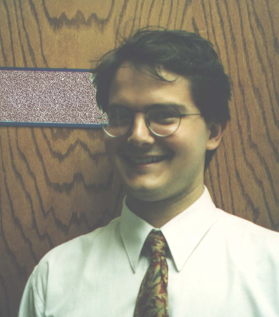 Photograph of Professor Alfred P. Montero.